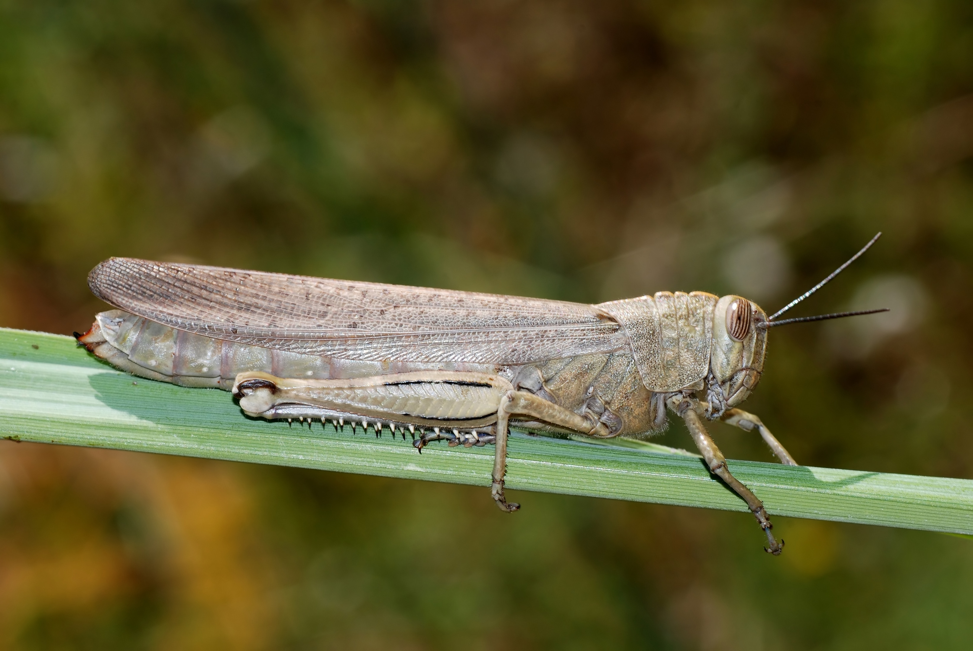 Portrait of a grasshopper of the Acrididae family: Anacridium aegyptium